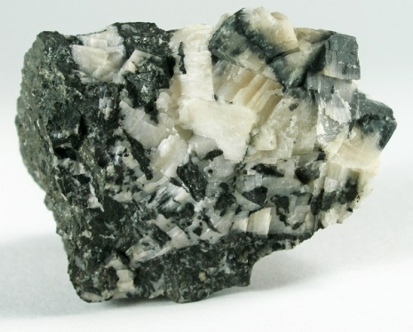 Berzelianite, Calcite Locality: Skrikerum Mine (Skrickerum Mine), Valdemarsvik, Östergötland, Sweden Size: 5.4 cm x 3.6 cm x 3.4 cm Berzelianite is a rare copper selenide and this old-time specimen is from the Type Locality in Sweden. Silvery bright berzelianite flakes and plates are included in calcite. The calcite fluoresces a modest purple. Ex. Charles Velte Collection. Highly representative.